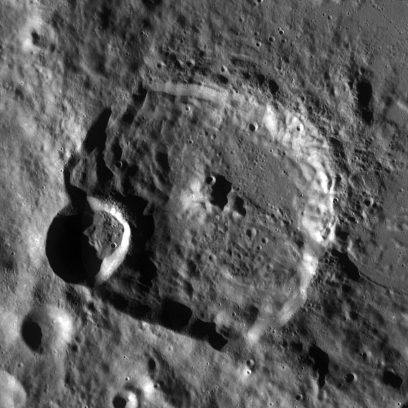 Slipher crater, on the far side of the moon. LRO Wide Angle Camera mosaic.